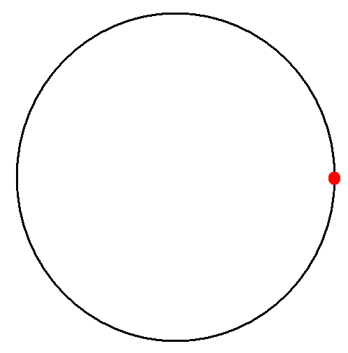 henagon on a circle